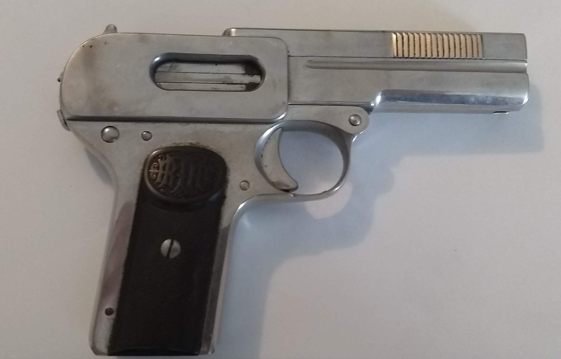 A plated GI bring back 1907 Dreyse